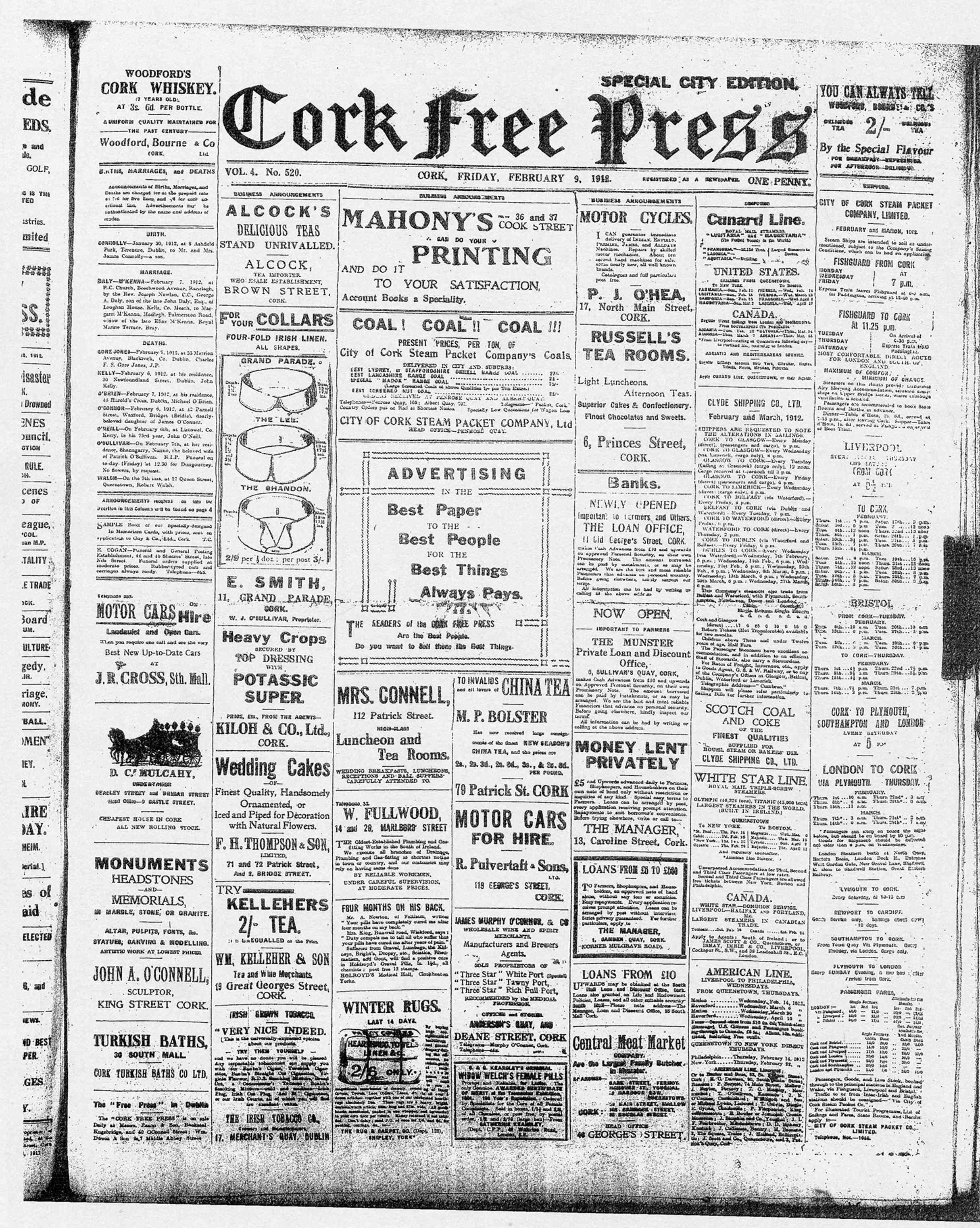 Image of the front page of “The Cork Free Press”, a defunct Irish newspaper published by William O’Brien MP from 11 June 1910 to the 9 December 1916, the third of three newspapers he published in the years 1899 to 1916. It was the official organ of the political party he founded in 1909, the All-for-Ireland League.